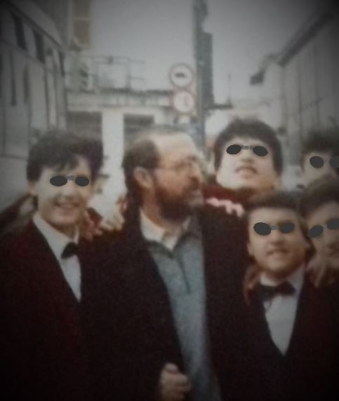 Don Nicola Palmisano (Taurisano 1940 - Rome 1993) away with a musical group of young Salesians in the late 1980s. Image digitally reconstructed.